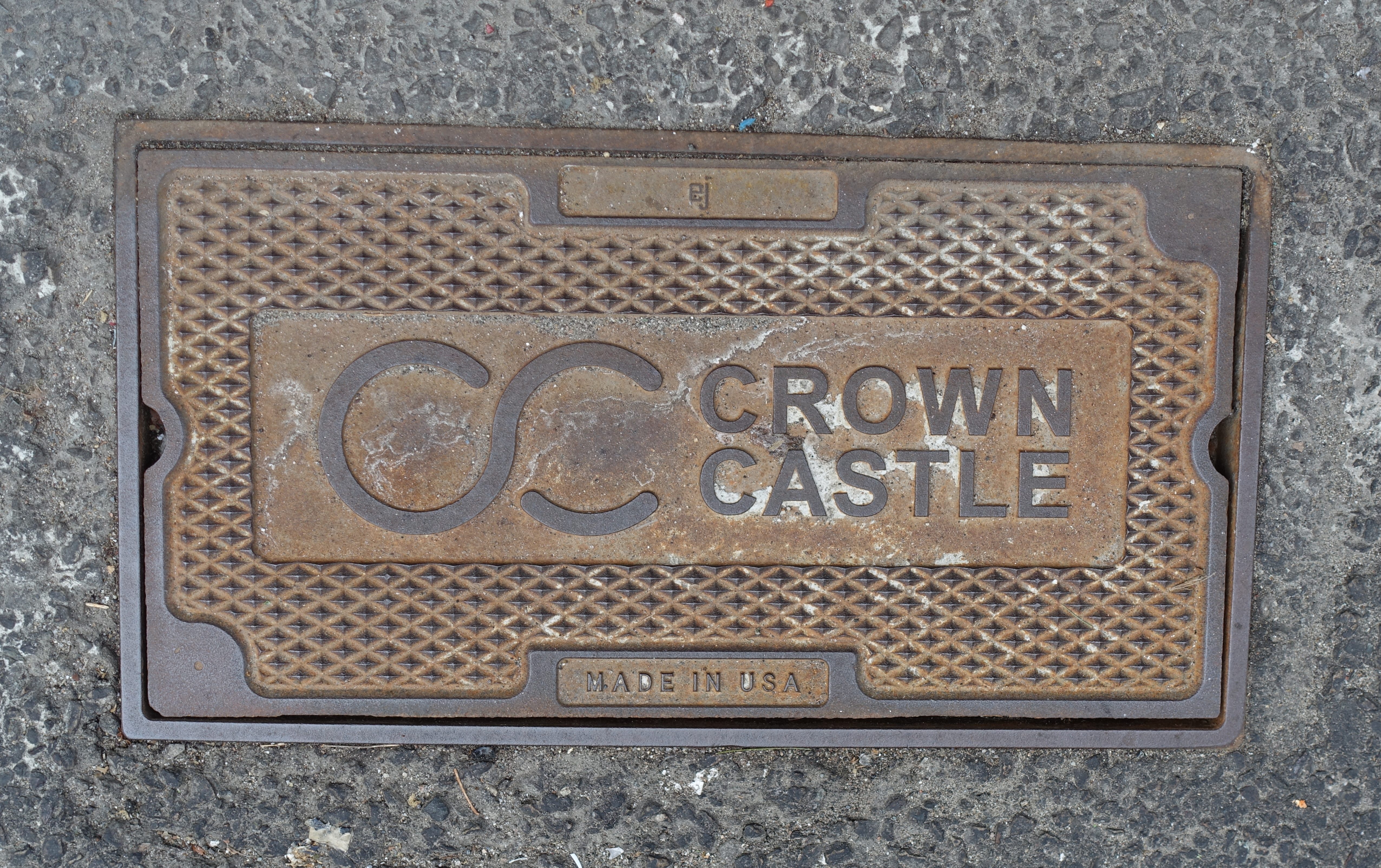 Manhole cover in Boston, Massachusetts, USA.